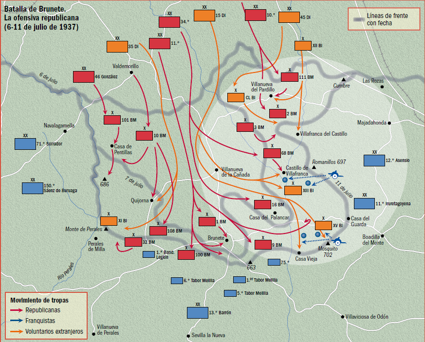 Battle of Brunete map. July 1937.